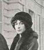 Princess Vjera of Montenegro